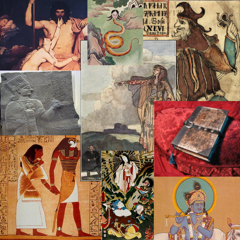 Various mythos.